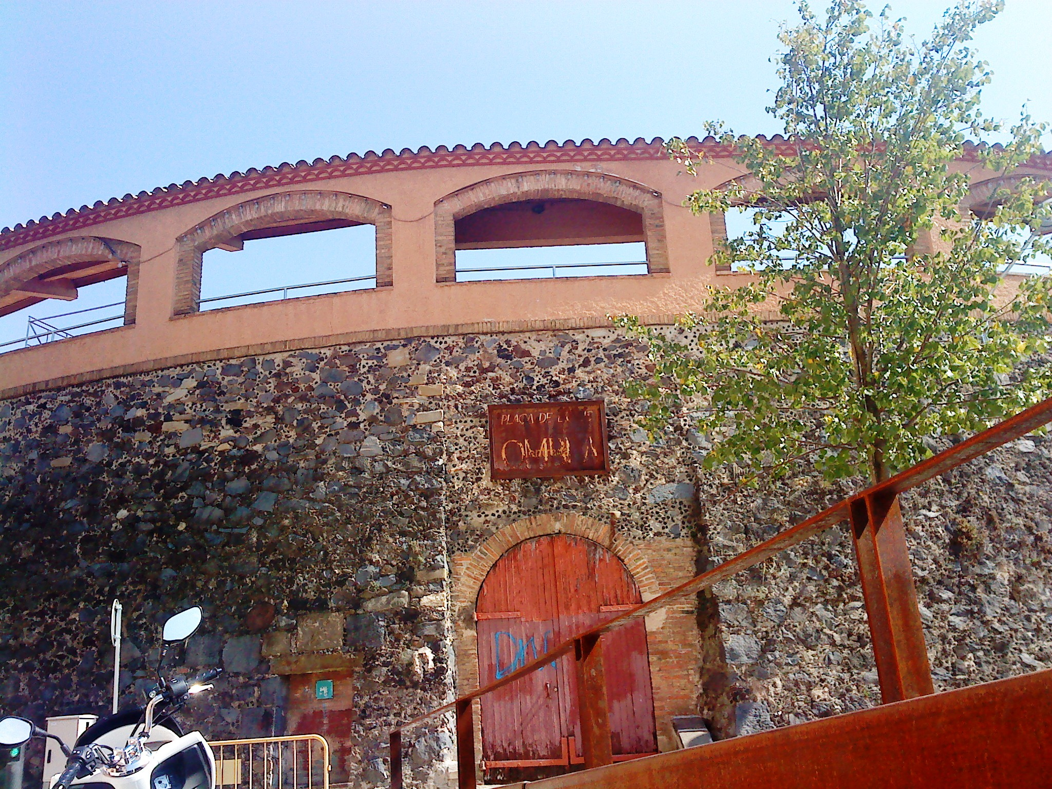 Olot, Catalonia, Spain: Bull Fight Arena of Olot